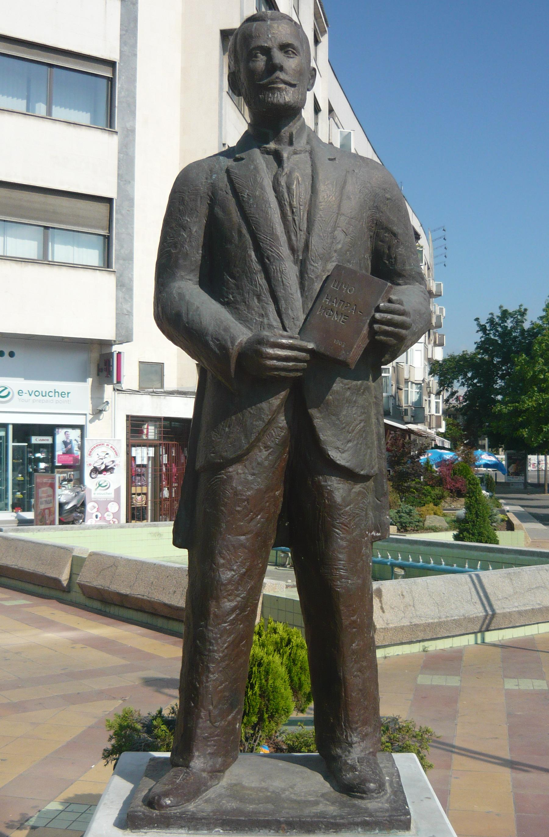 Statue of Krste Misirkov on Pella Square in Skopje